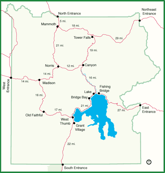 Map of Yellowstone National Park from NPS website.